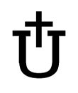 Drawing of symbol of Ustase with latin cross.